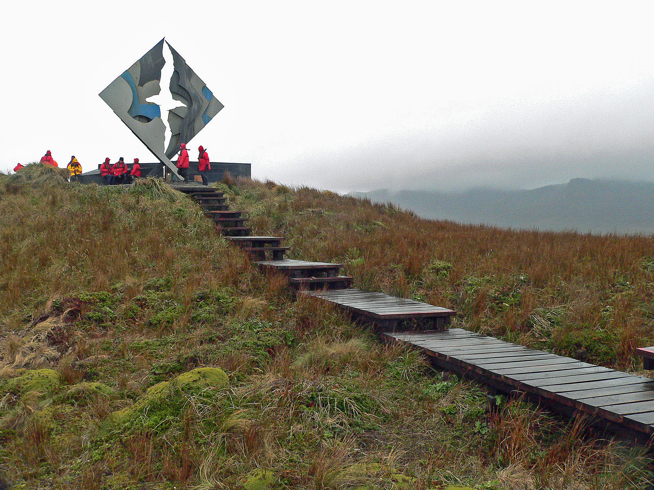 Albatros monument on Cape Horn